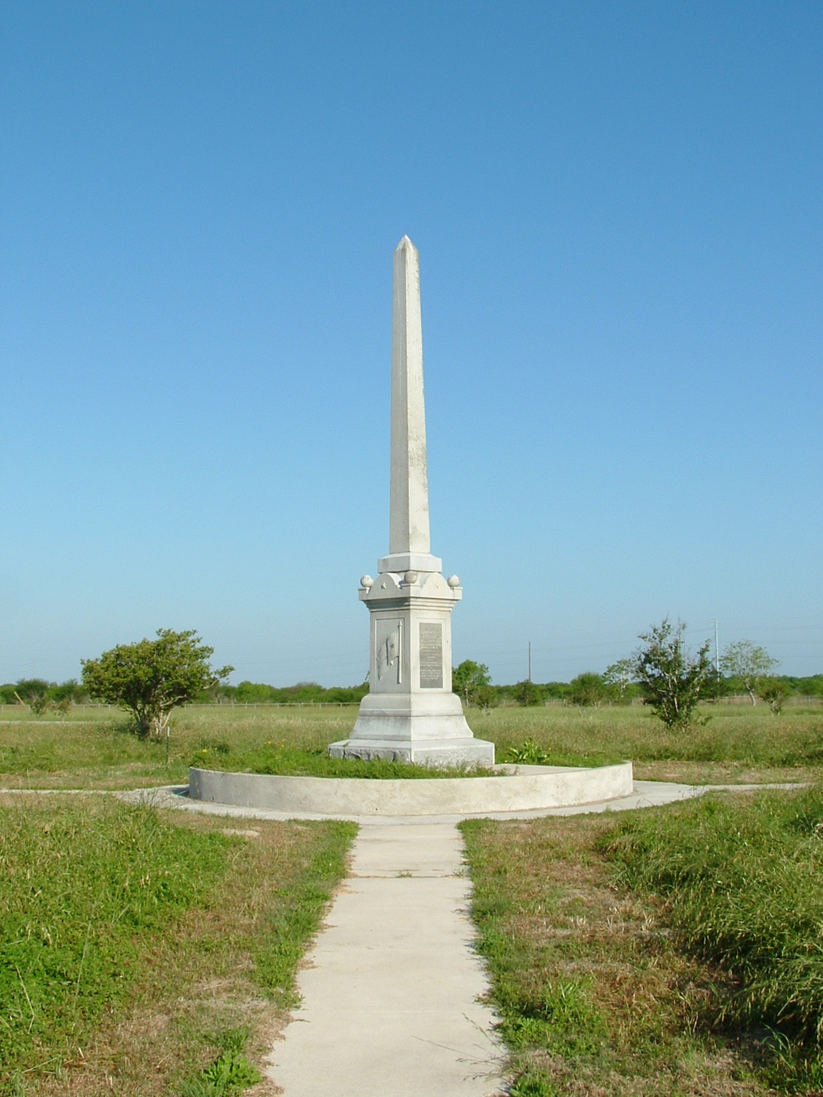 Memorial obelisk commemorating the Battle of Coleto, Fannin Battleground State Historic Site, Texas, USA